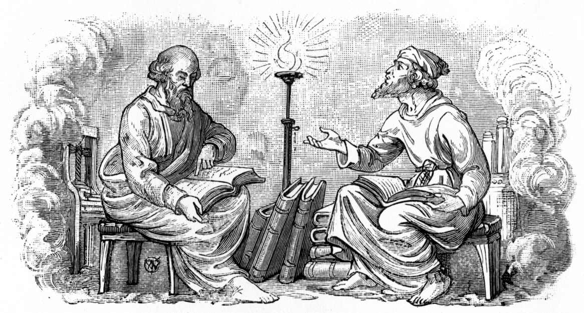 Discourse into the Night, Two learned robed, bearded and barefoot gentlemen converse, books in their lap.